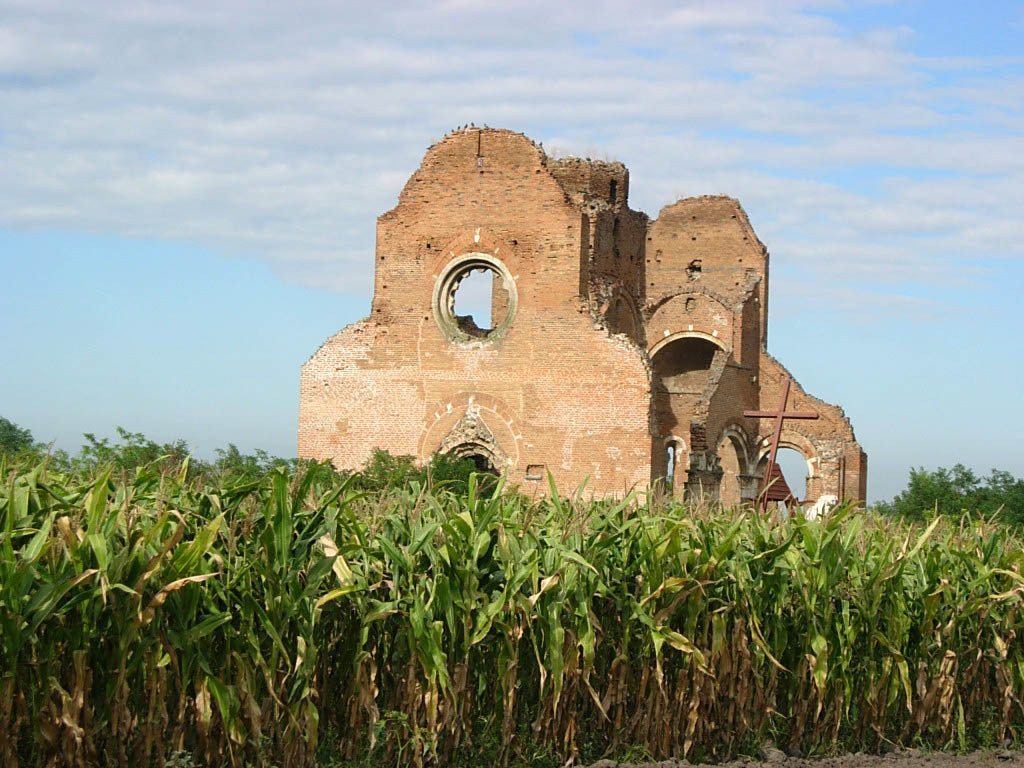 Ruins of the medieval Catholic church of Arač (Aracs) near Novi Bečej, 13th century.